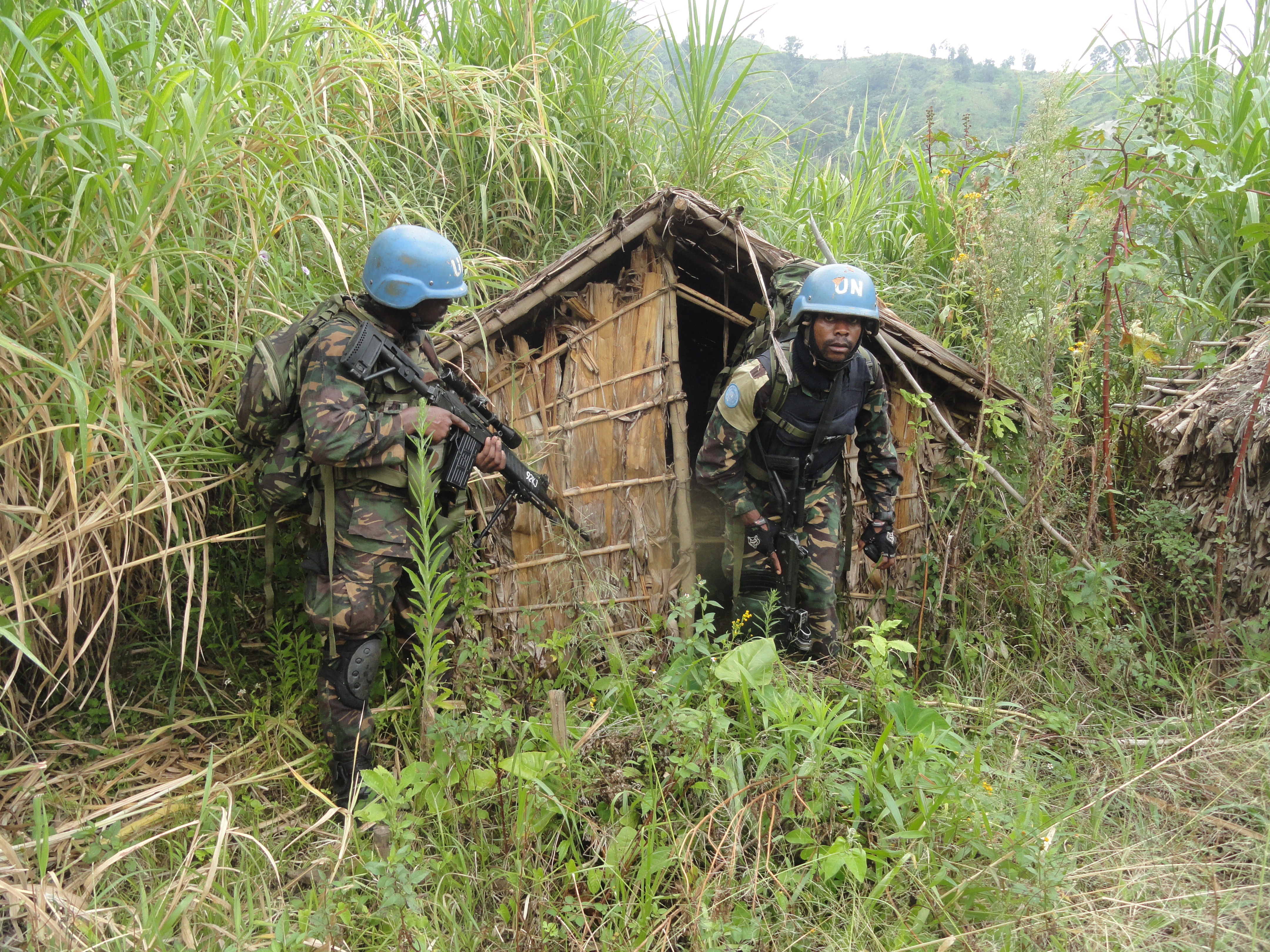 Tanzanian Special Force Soldiers searching the hut of the suspected FDLR rebels, in the KALIMA forest in RUTSHURU area during Operation BRONCO in December 2016. Photo MONUSCO Forces/FIB-TANZBATT